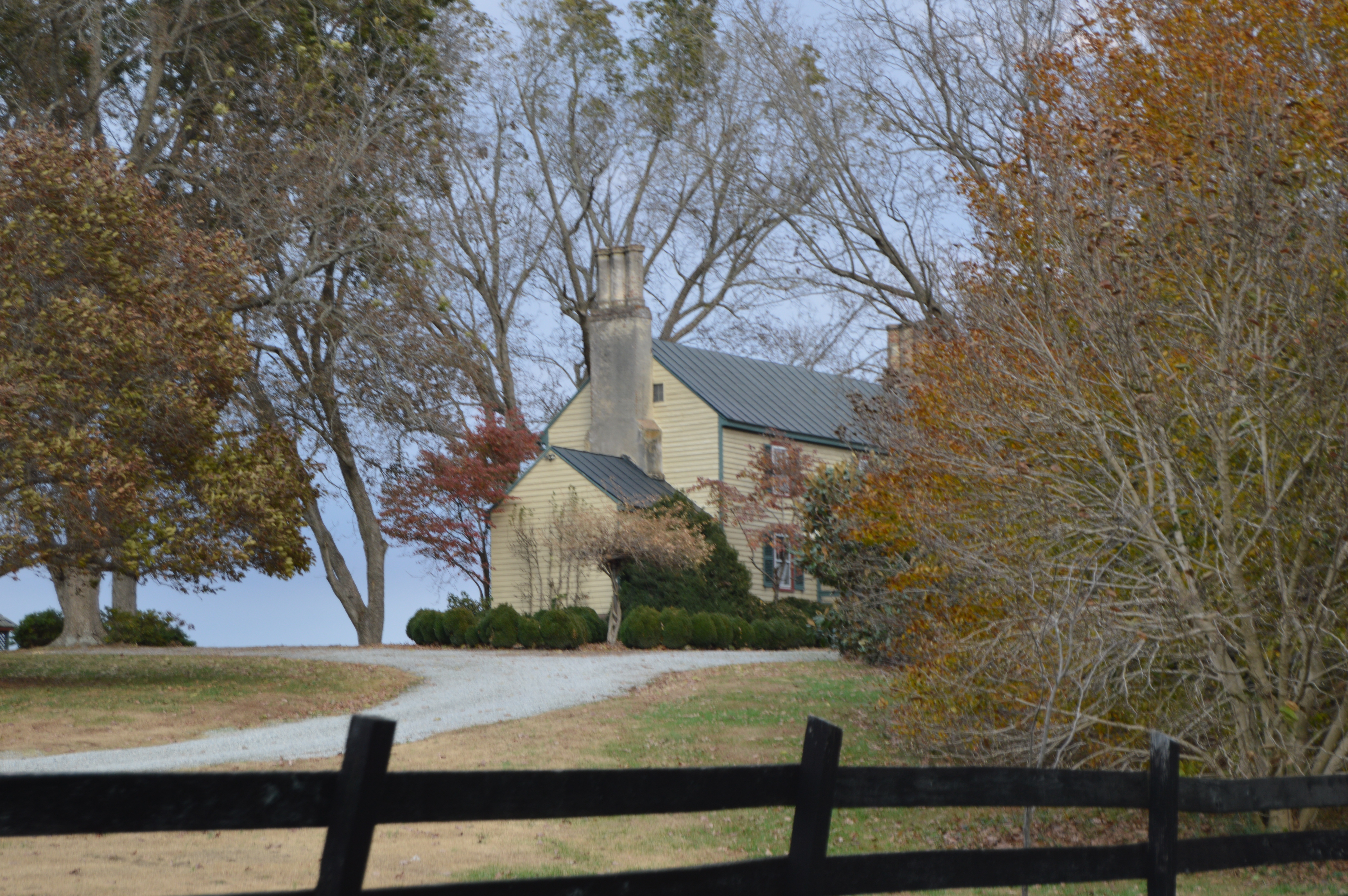 View from the south of Flat Rock, located on Plank Road southwest of Kenbridge in Lunenburg County, Virginia, United States. Built in 1797, it is listed on the National Register of Historic Places.